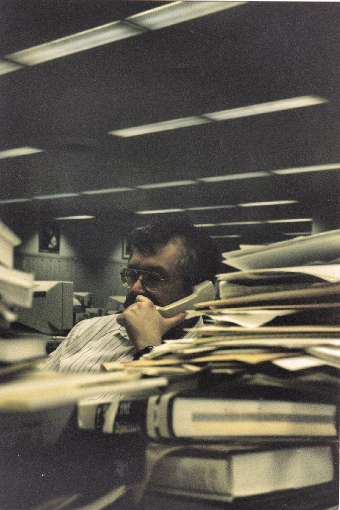 My former colleague and Pulitzer Prize-winner Chuck Neubauer in the old Chicago Sun-Times newsroom in 1998. As of 2007, he was an investigative reporter with the Los Angeles Times.